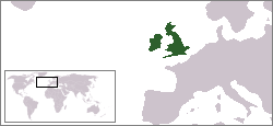 This map has been uploaded by Electionworld from to enable the Wikimedia Atlas of the World . Original uploader to was Br2387, known as Br2387 at . Electionworld is not the creator of this map. Licensing information is below.